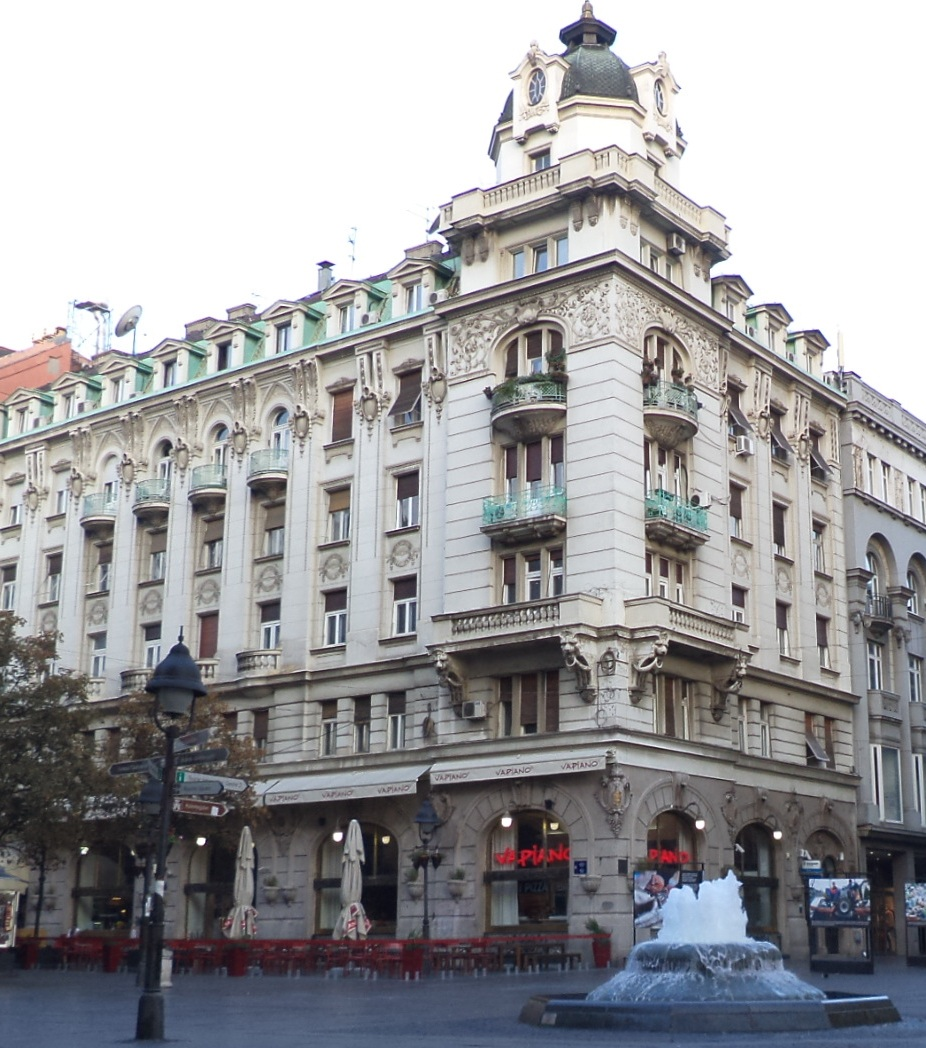 Ruski Car or Russian Tsar is a commercial-residential building and a restaurant in downtown Belgrade. It is located in Knez Mihailova Street. The building is finished in 1926.